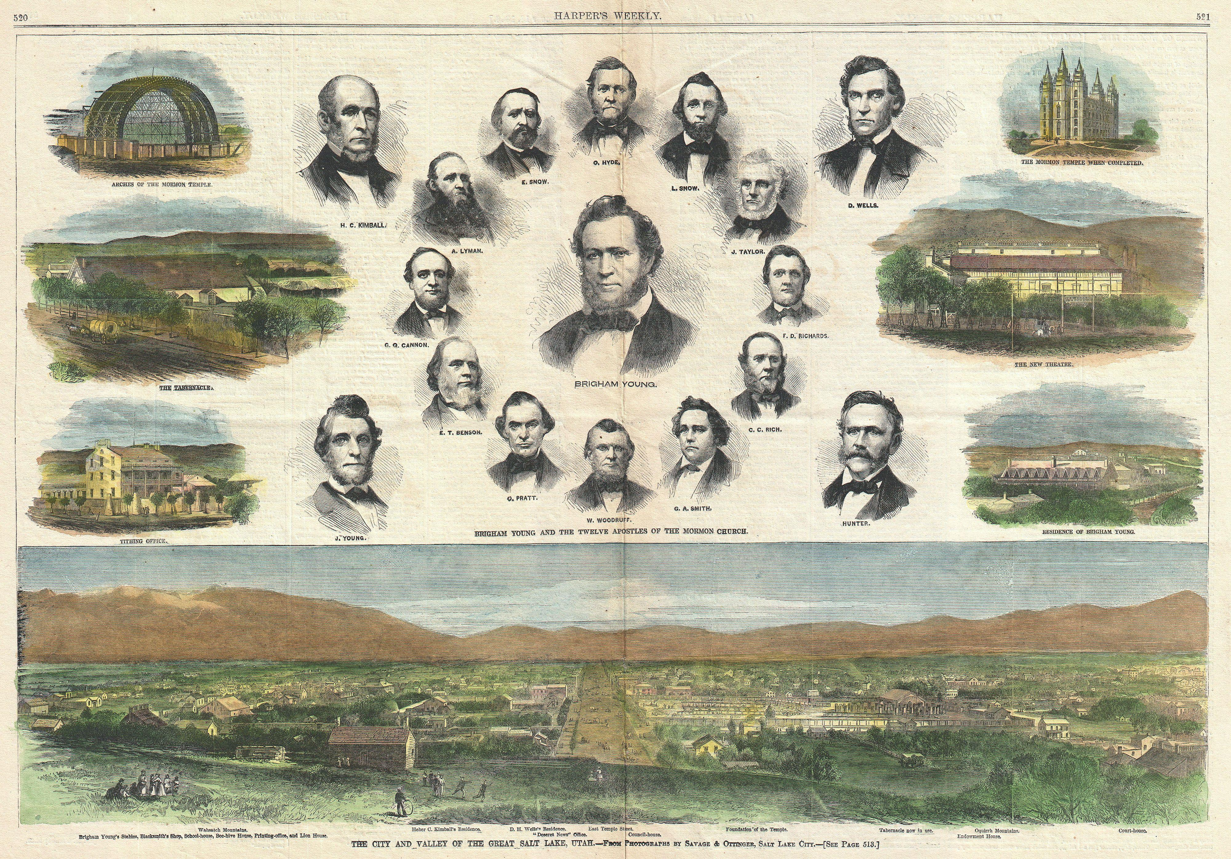 A view of Salt Lake City, Utah from the August 1866 issue of Harper’s Weekly. Offers a panoramic view of the city as well as six smaller views of important Salt Lake City buildings, including the Tithing Office, The Tabernacle, the Arches of the Mormon Temple, the Mormon Temple when Completed, the New Theater and the Residence of Brigham Young. Various important buildings are noted in the view. Most of the images on this page were based on photography by the early pioneers of Western photography Savage & Ottinger. Also offers portraits of sixteen important early leaders of The Church of Jesus Christ of Latter-day Saints. These are: Benson, Ezra T. Cannon, George Q. Hunter, Edward Hyde, Orson Kimball,Heber C. Lyman, Amasa M. Pratt, Orson Rich, Charles C. Richards, Franklin D. Smith, George A. Snow, Erastus Snow, Lorenzo Taylor, John Wells, Daniel H. Woodruff, Wilford Young, Brigham Young, John Willard